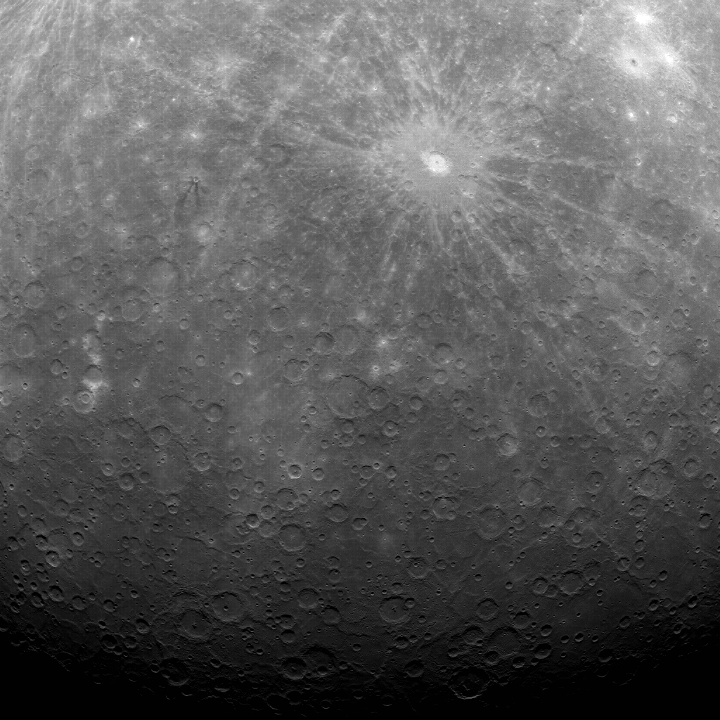 29 March 2011, at 5:20 am EDT, MESSENGER captured this historic image of Mercury. This image is the first ever obtained from a spacecraft in orbit about the Solar System's innermost planet. Over the subsequent six hours, MESSENGER acquired an additional 363 images before downlinking some of the data to Earth. The MESSENGER team is currently looking over the newly returned data, which are still continuing to come down.